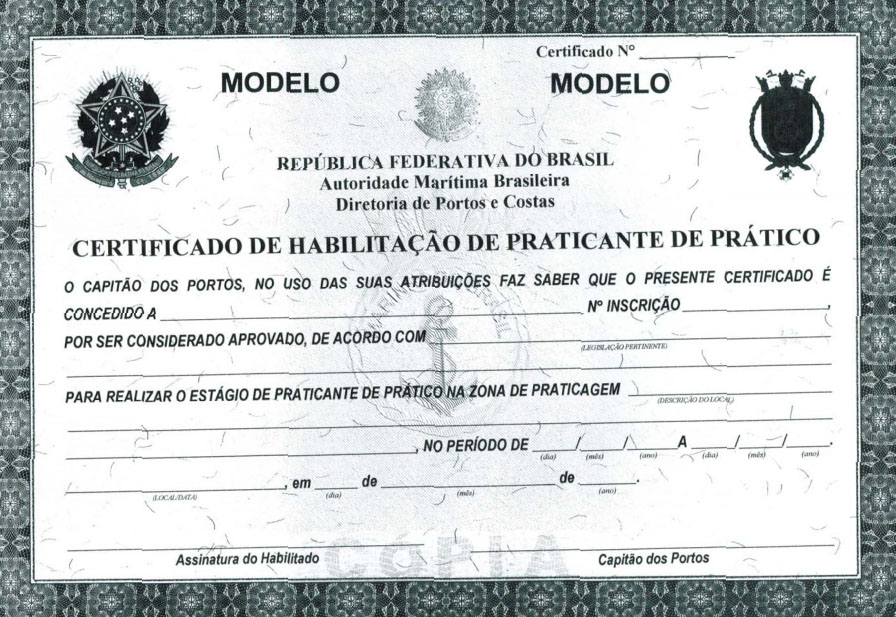 Certificado de Praticante de Prático